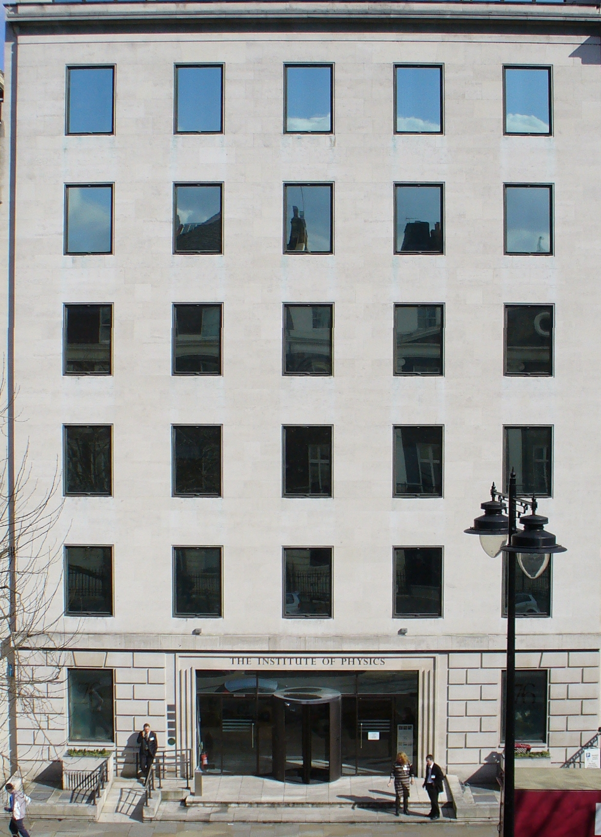 Photo of the institute builiding in Portland Place